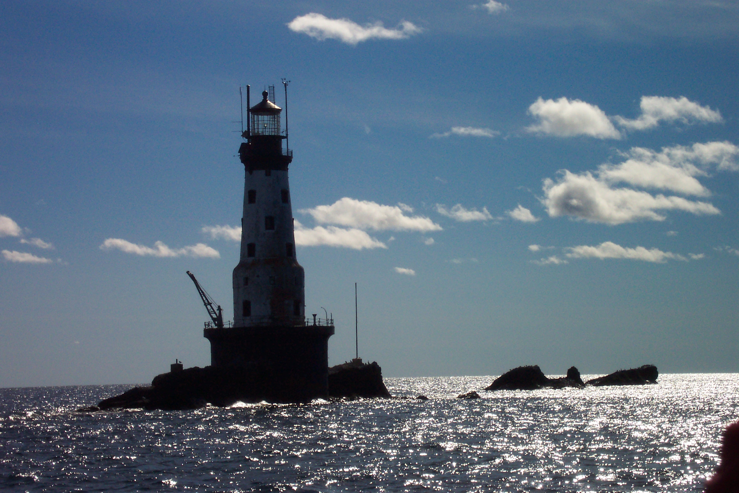 Rock of Ages lighthouse, off the west end of Isle Royale in Lake Superior.